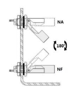 Chave de nível, com normal aberto no nível superior e normal fechado no nível inferior